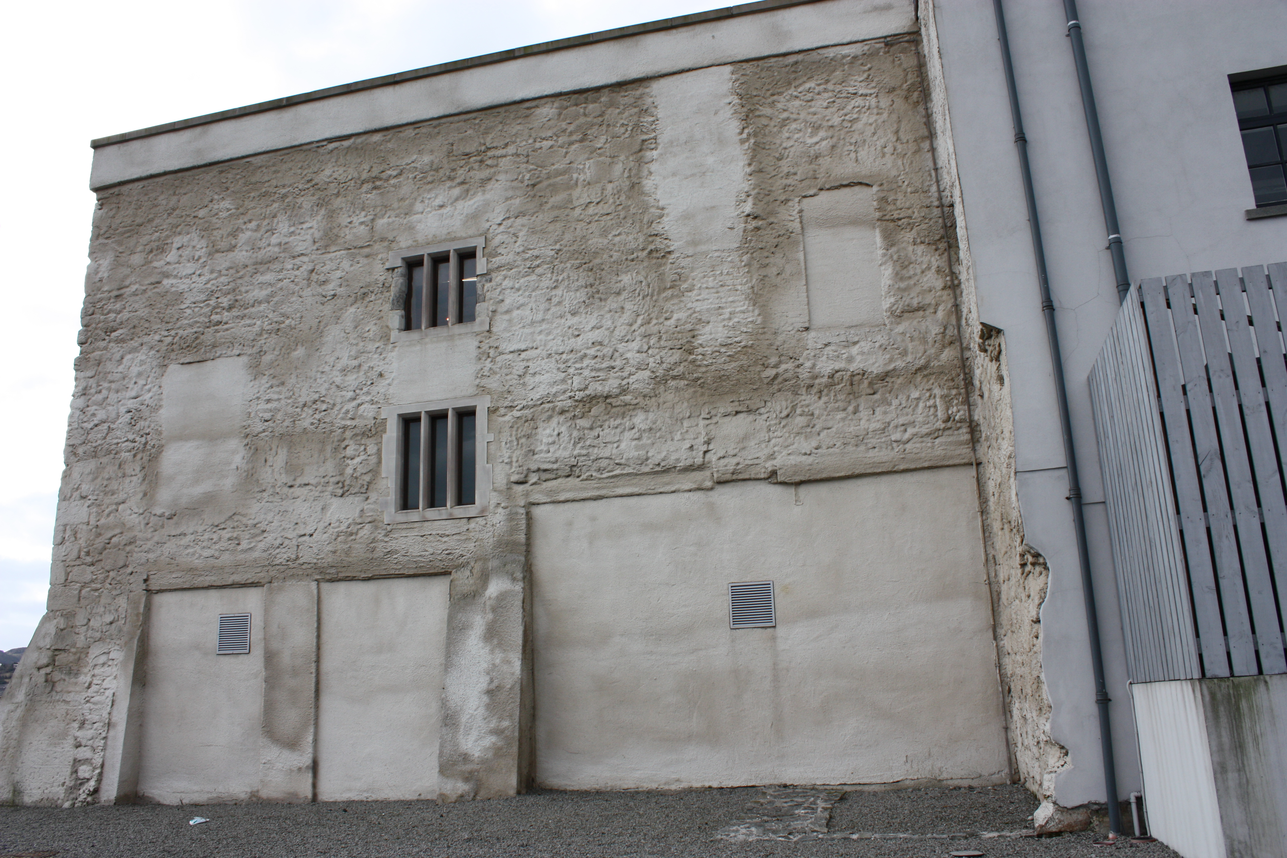 Bagenal's Castle, Castle Street, Newry, County Down, Northern Ireland, March 2010